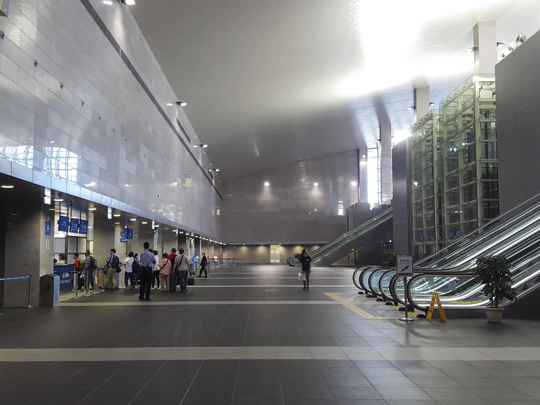 Taipa Ferry Terminal